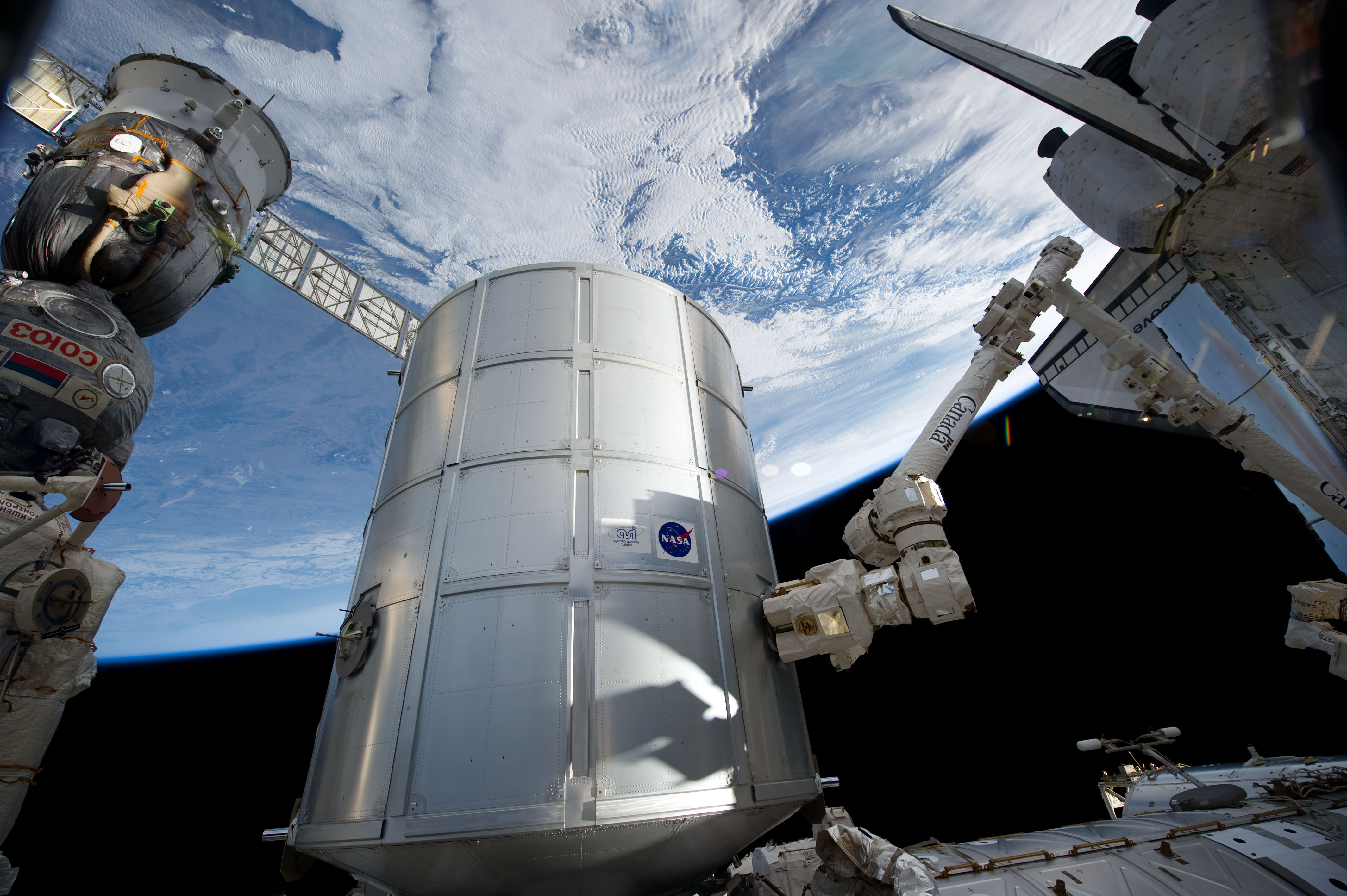 In the grasp of the International Space Station's Canadarm2, the Italian-built Permanent Multipurpose Module (PMM) Leonardo is transferred from Space Shuttle Discovery's payload bay to be permanently attached to the nadir (Earth-facing) port of the station's Unity node. Earth's horizon and the blackness of space provide the backdrop for the scene.